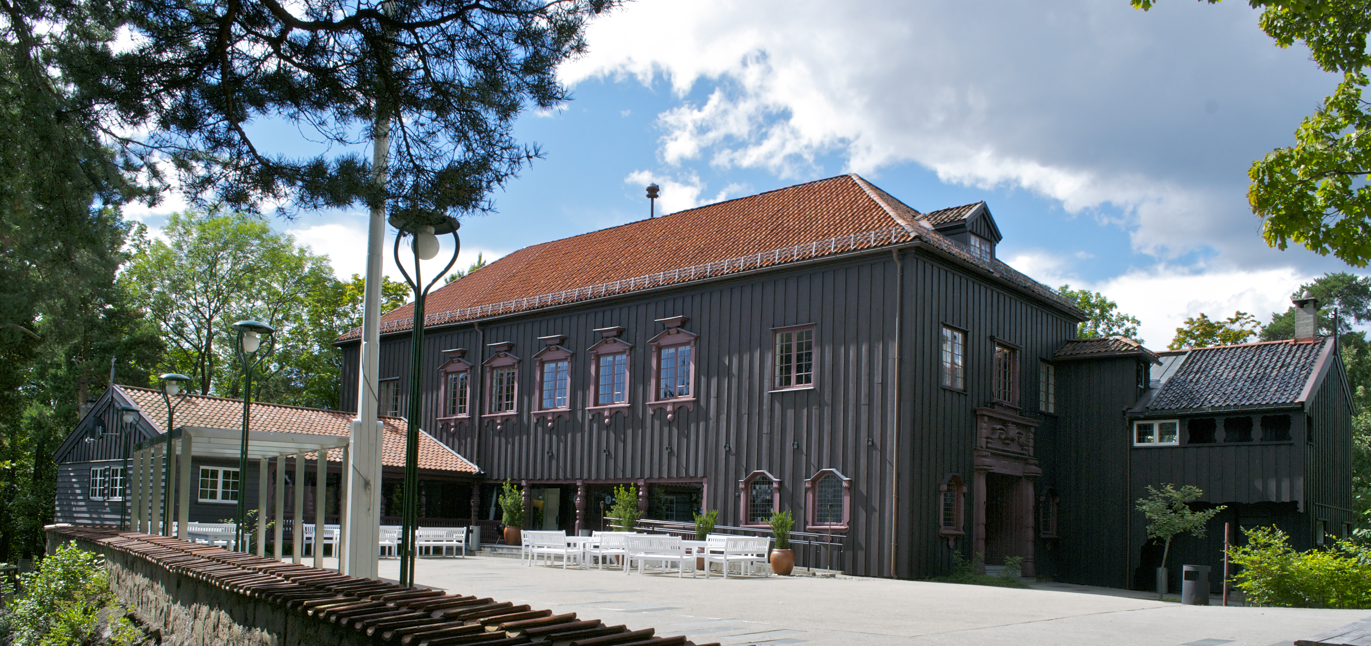 The Reception Rooms, Norsk Folkemuseum